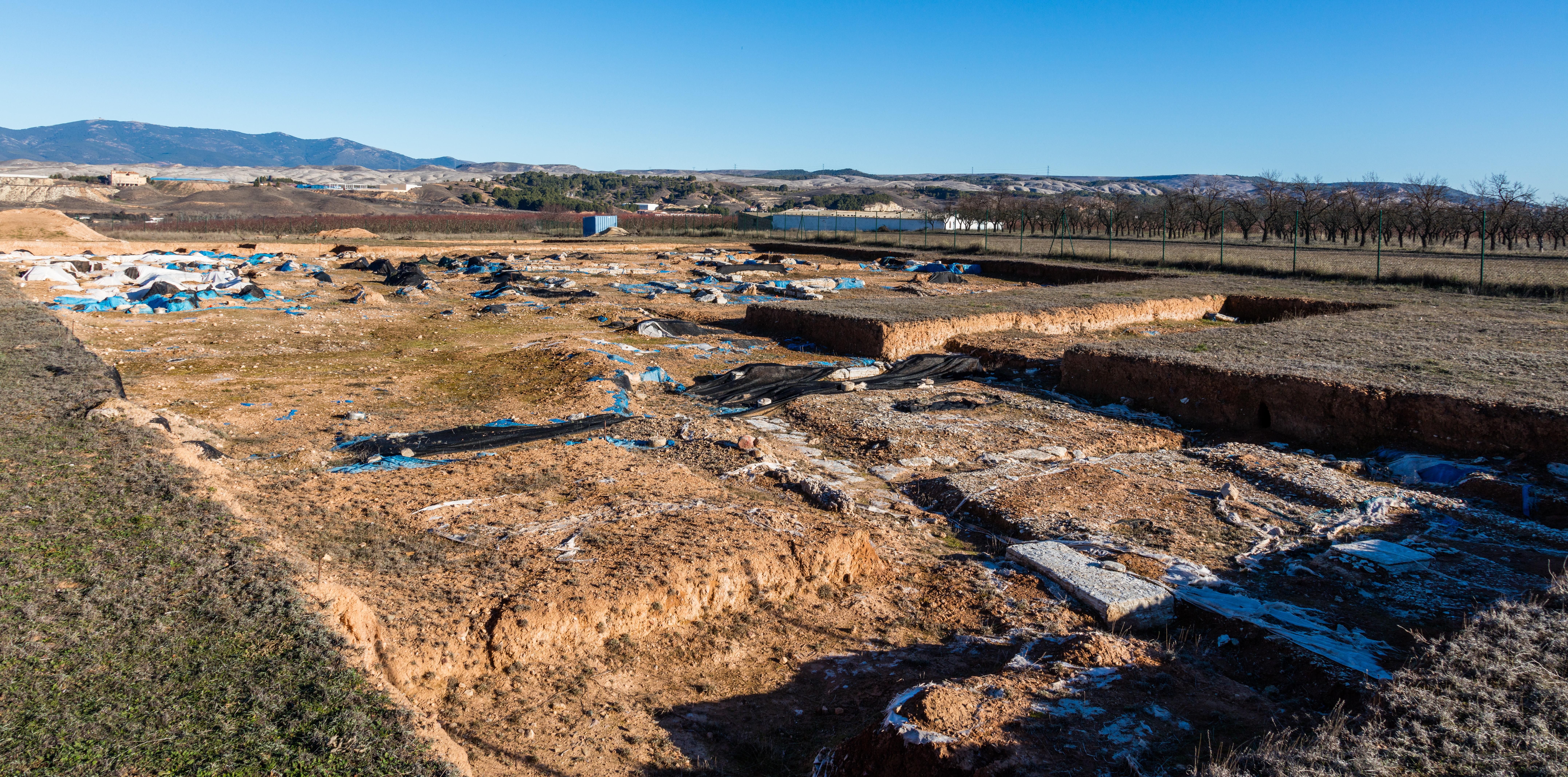 Archaeological site of Valdeherrera, Calatayud, Saragossa, Spain